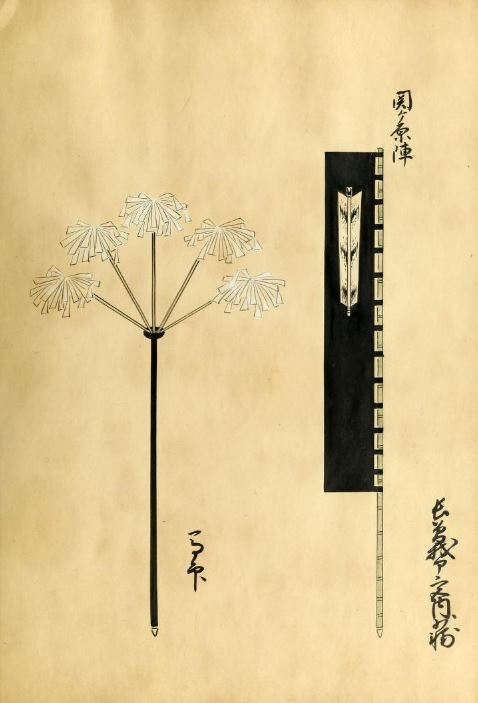 R: Banner used in the battle of Sekigahara in 1600 (feathers on black), L: Battle Standard (white sumitori paper in five bunches)